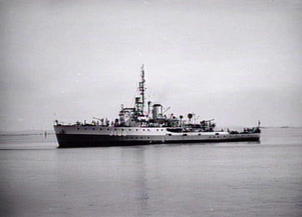 HMAS Gawler (J188)